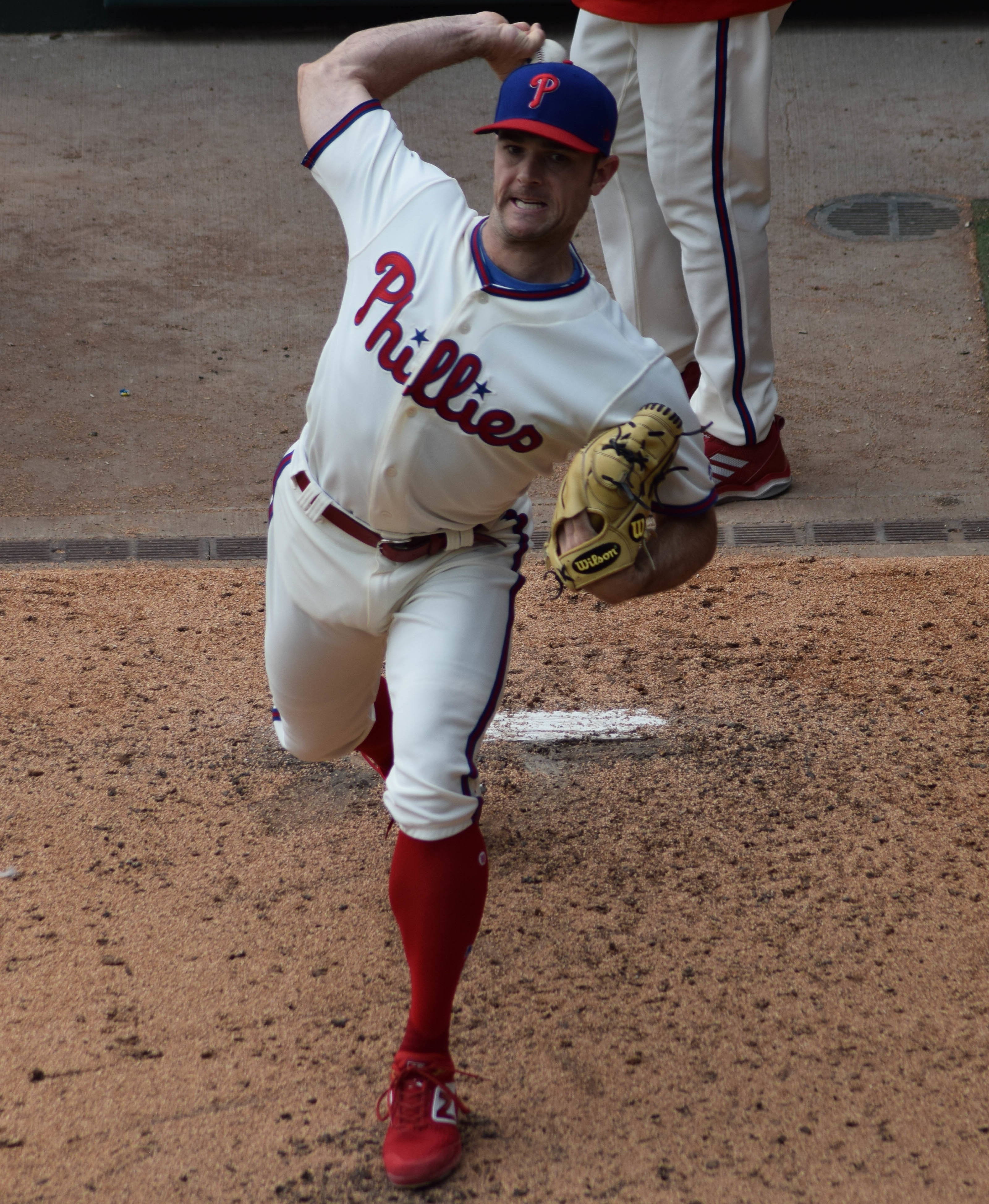 David Robertson pitching for the Phillies in 2019